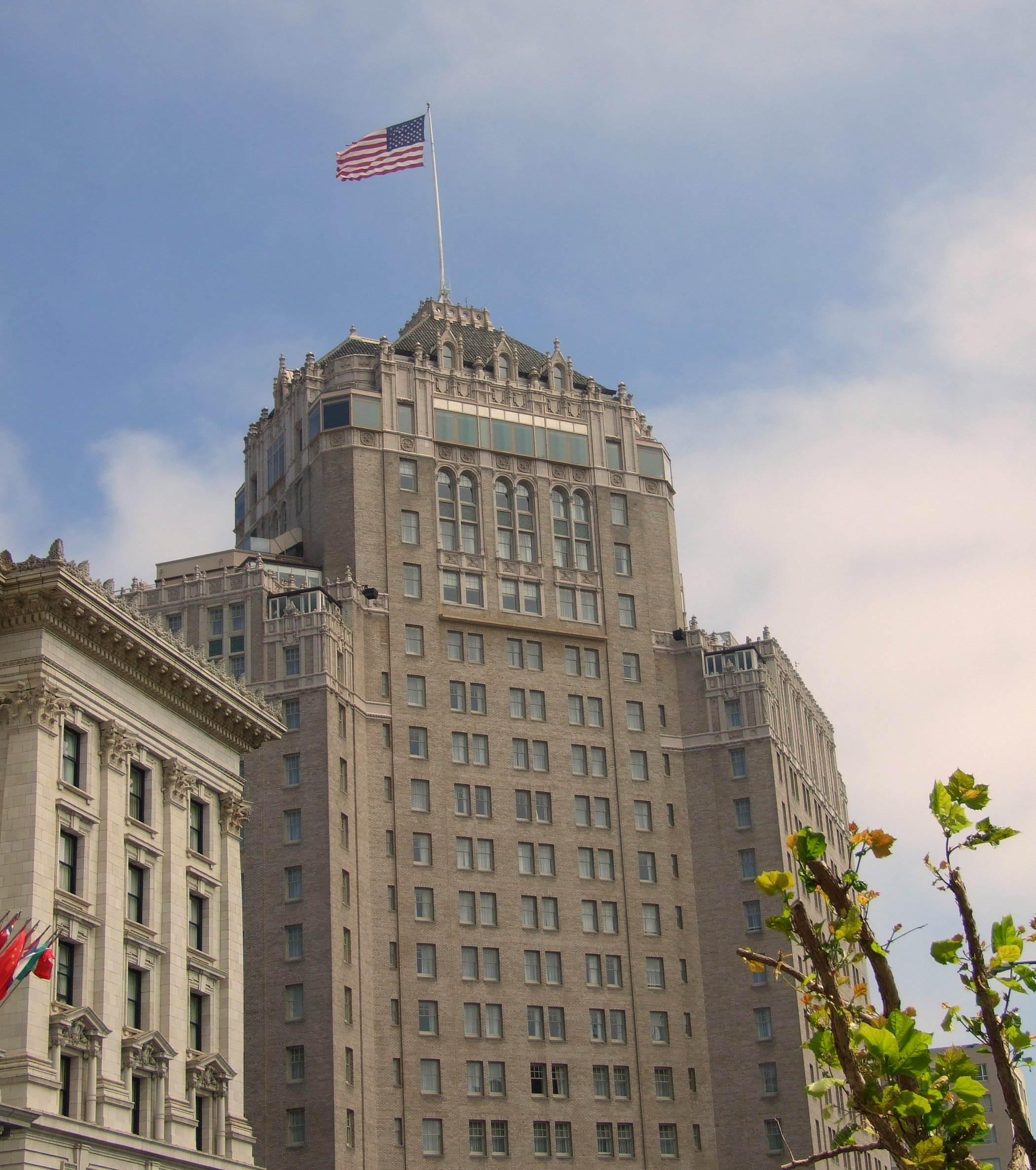 Top of the Mark